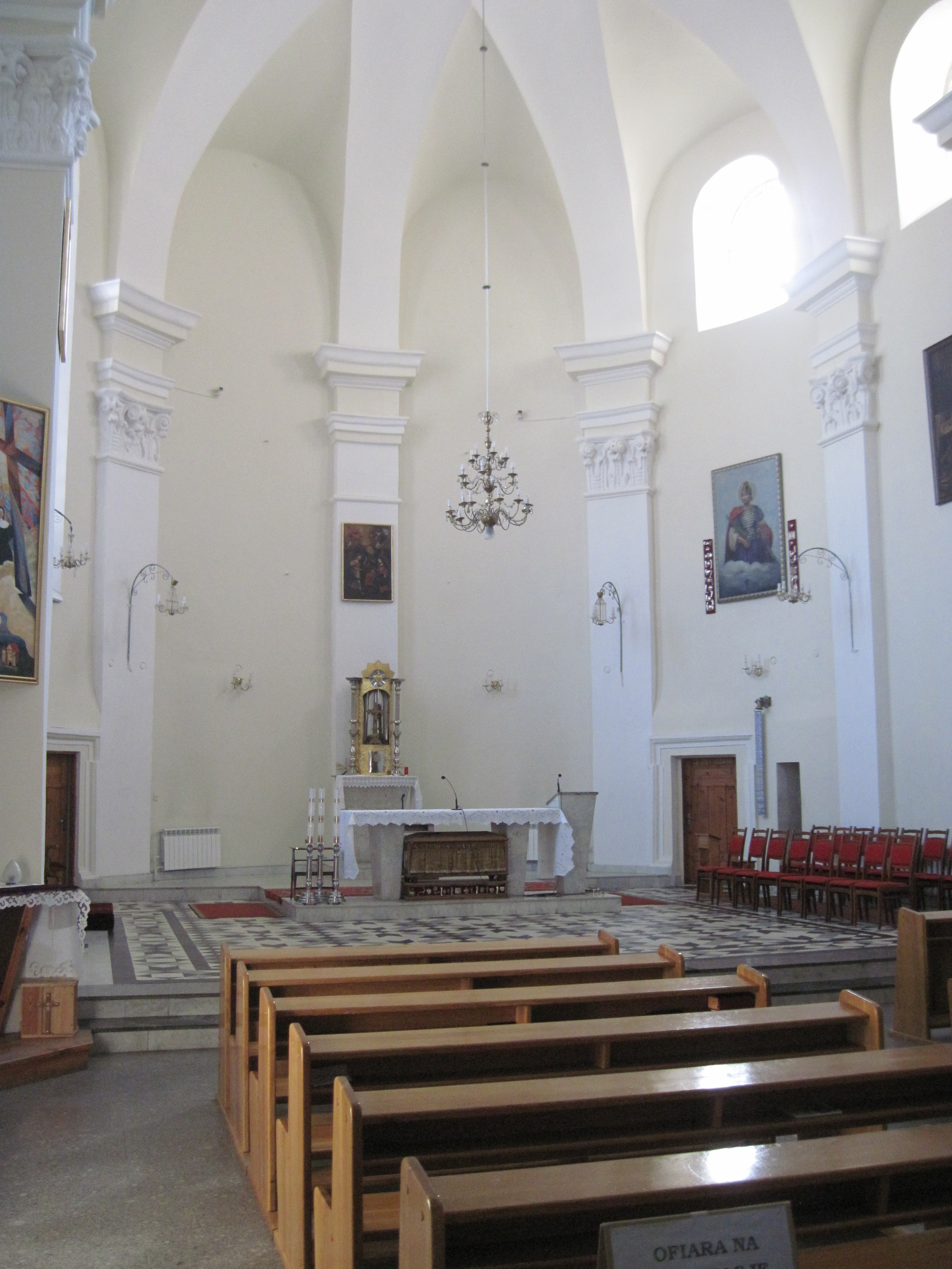 Interior of the Church of the Annunciation of the Virgin Mary. Hrodna, Belarus.